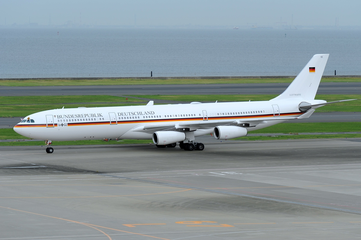 President of Germany visit to Japan.